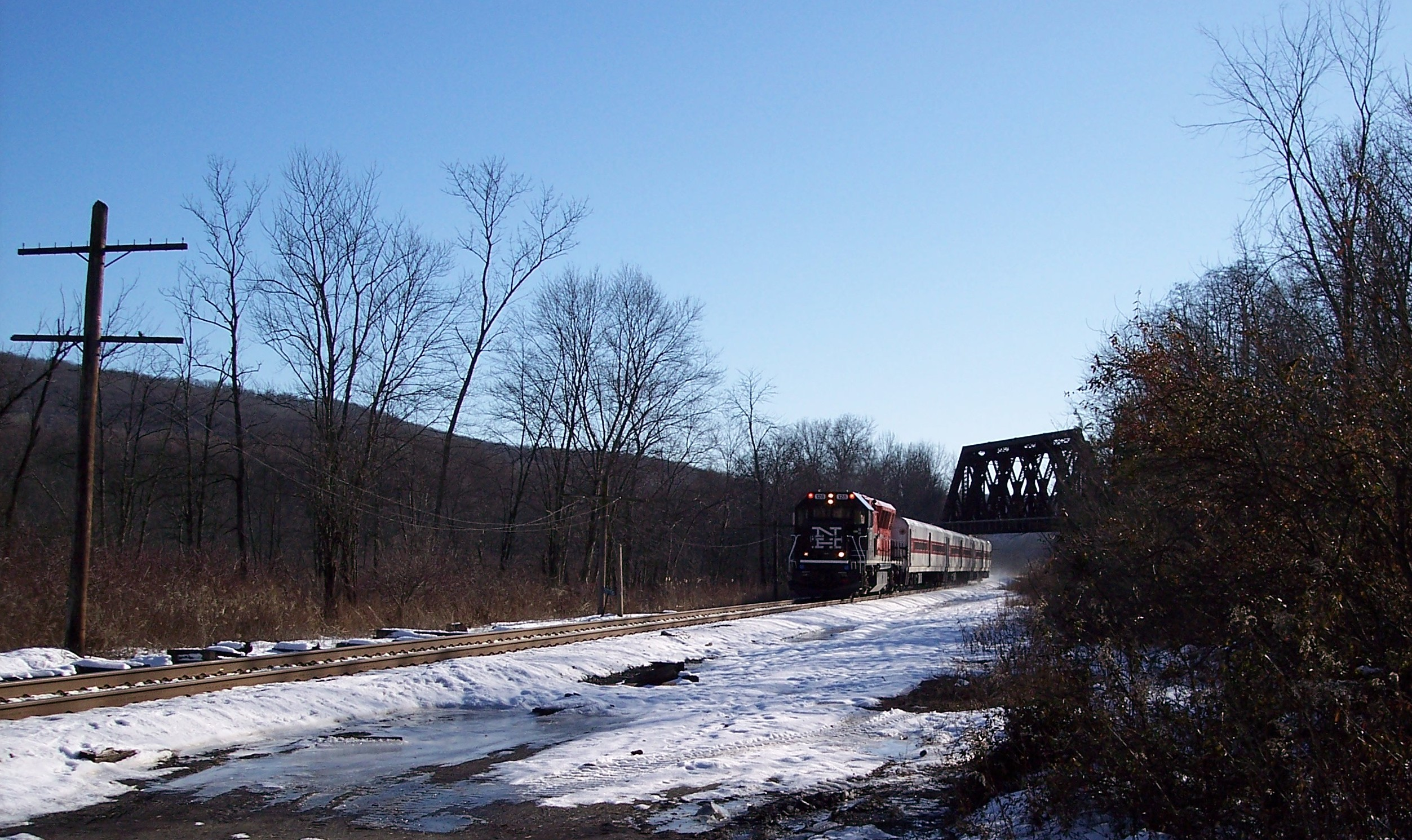 Location of the former Towners, NY train station.